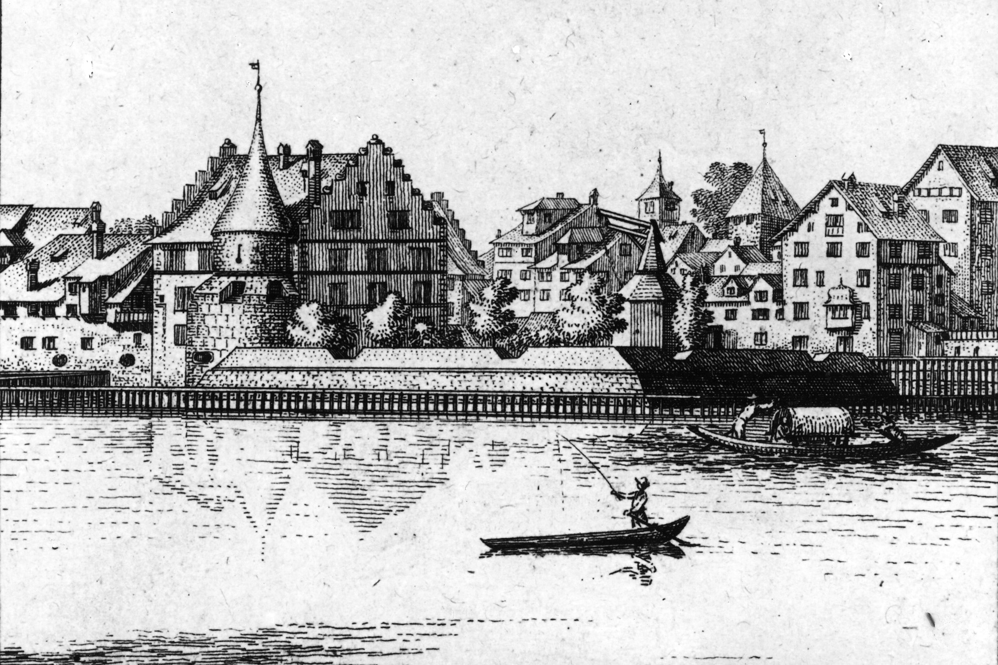 Zürich : "Bauschänzli" (former Ravelin "Kratz") and "Bauhaus" in Kratz quarter, as of 1770